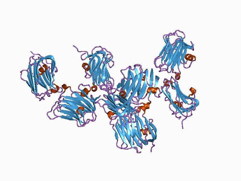 Cartoon representation of the molecular structure of protein registered with 1c4r code.